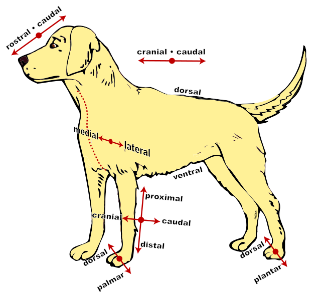 The image shows anatomical direction on a quadruped - a dog.